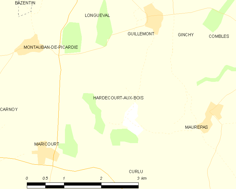 Map of French municipality Hardecourt-aux-Bois